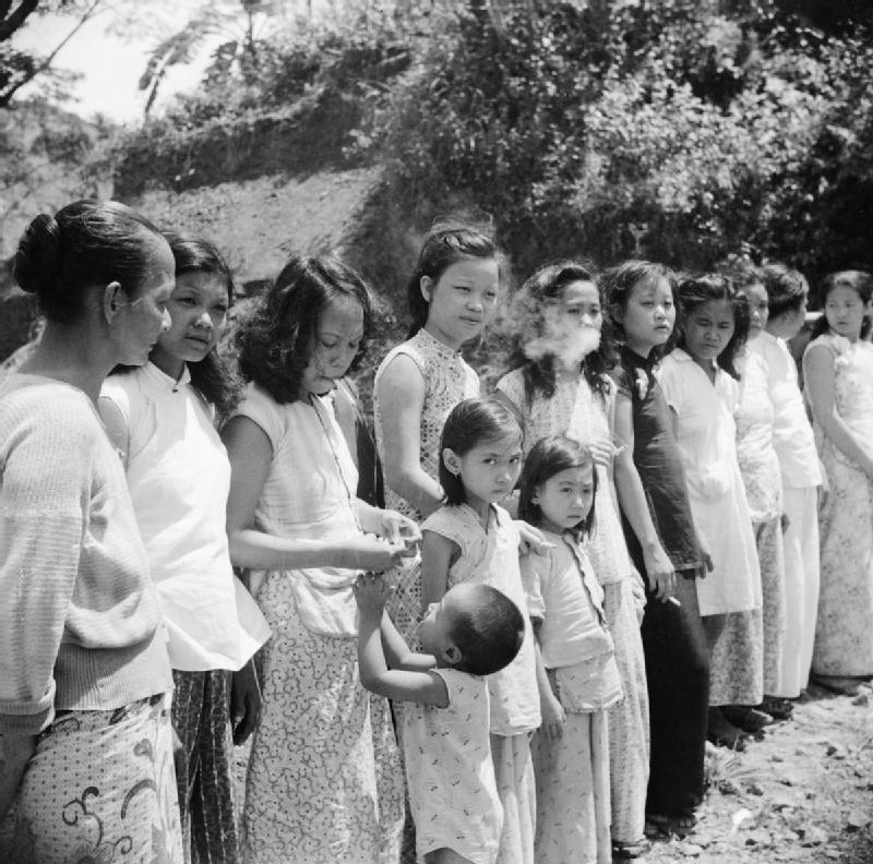 The Allied Reoccupation of the Andaman Islands, 1945 Chinese and Malayan girls forcibly taken from Penang by the Japanese to work as 'comfort girls' for the troops.